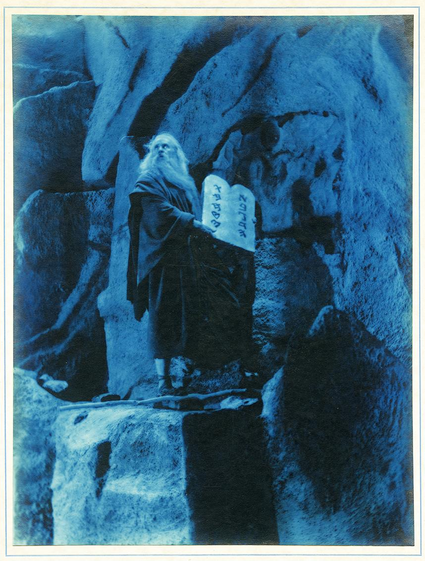 Title: Scene from Cecil B. DeMille's The Ten Commandments Repository: California Historical Society Digital object ID: PC-RM-Curtis_587 Call Number: PC-RM-Curtis Collection: Photographs of the filming of Cecil B. DeMille's The Ten Commandments Photographer: Curtis, Edward S. Date: 1923 Physical description: Photographic print on printed mounts: silver gelatin, blue-tinted; 38 x 50 cm. General notes: Mounts imprinted: The Edward S. Curtis Studio 668 South Rampart, Los Angeles. Contains images of actors playing scenes in, and exterior and interior sets from, Cecil B. DeMille's The Ten Commandments. Most photos show Theodore Roberts as Moses, and several show Charles de Rochefort (Charles de Roche) as Ramses. Includes group scenes in the dunes, near or in the ocean, and on interior sets. Filmed at Guadalupe-Nipomo Dunes in Santa Barbara County, California. Preferred citation: Scene from Cecil B. DeMille's The Ten Commandments, Photographs of the filming of Cecil B. DeMille's The Ten Commandments, PC-RM-Curtis, courtesy, California Historical Society, PC-RM-Curtis_587.